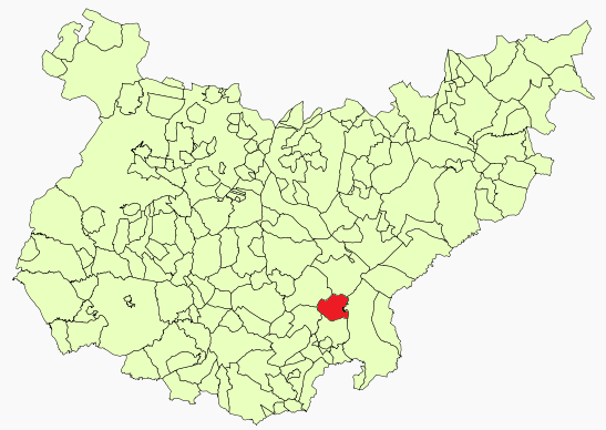 Maguilla